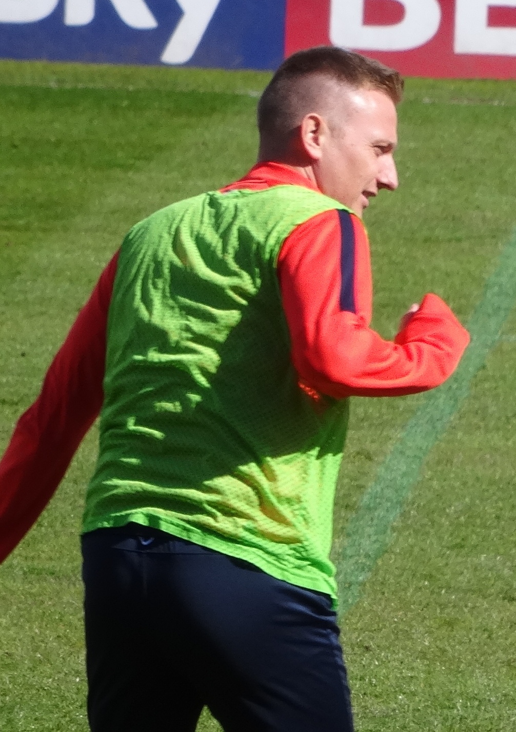 Derek Riordan training with York City before their match against Bristol Rovers at Bootham Crescent, York on 30 April 2016